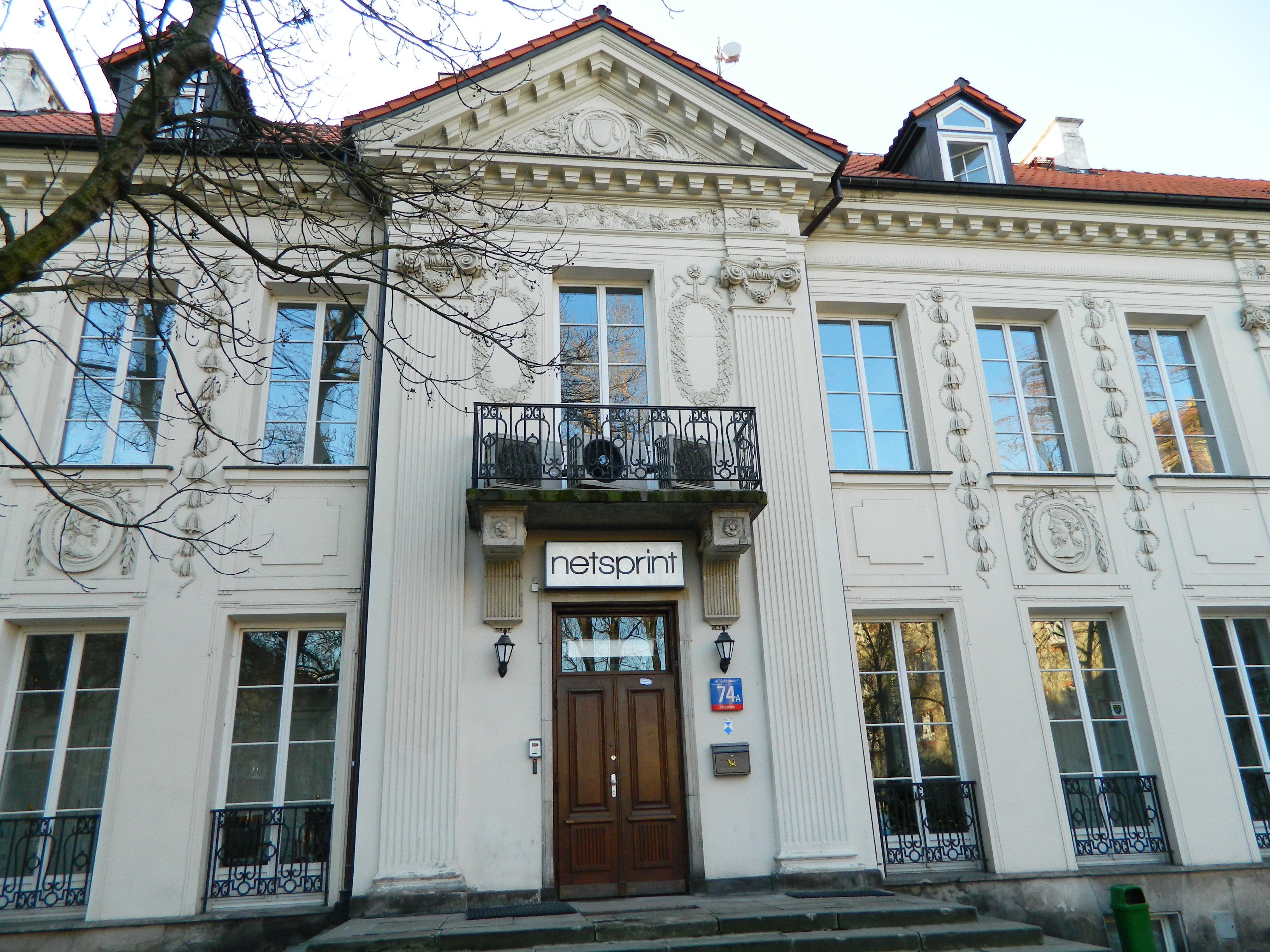 Entrance to the Działyński Palace in Warsaw